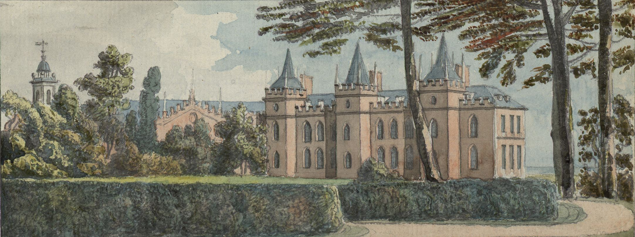 An image from a set of 8 extra-illustrated volumes of A tour in Wales by Thomas Pennant (1726-1798) that chronicle the three journeys he made through Wales between 1773 and 1776. These volumes are unique because they were compiled for Pennant's own library at Downing. This edition was produced in 1781. The volumes include a number of original drawings by Moses Griffiths, Ingleby and other well known artists of the period. Thomas Pennant (1726-1798)